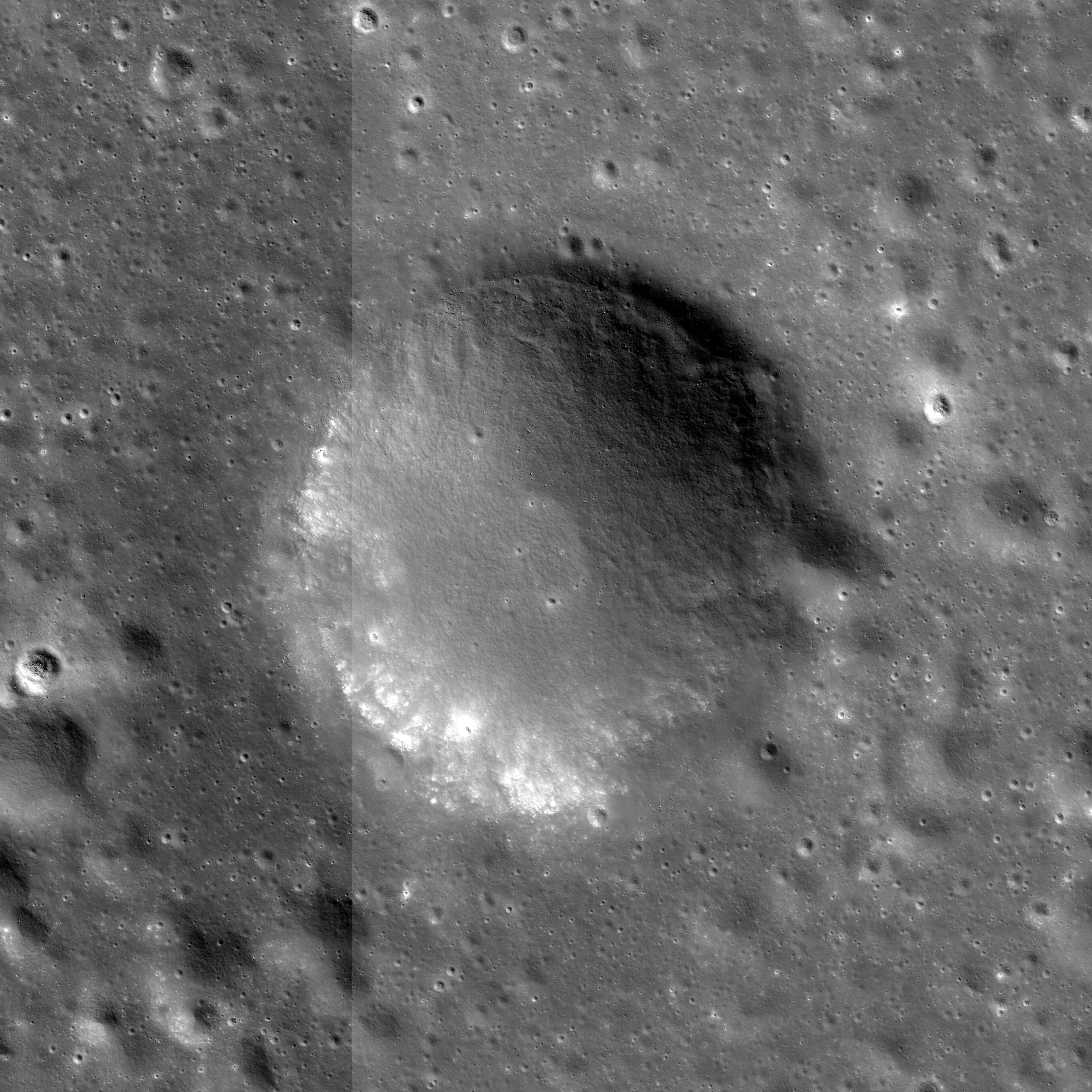 Hegu crater, within Von Kármán crater, on the far side of the moon. Image is approximately 3780 m wide.